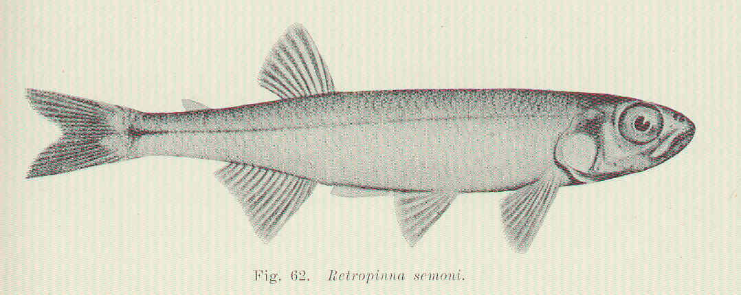 Retropinna semoni Subject: Retropinna, Smelts Tag: Fish